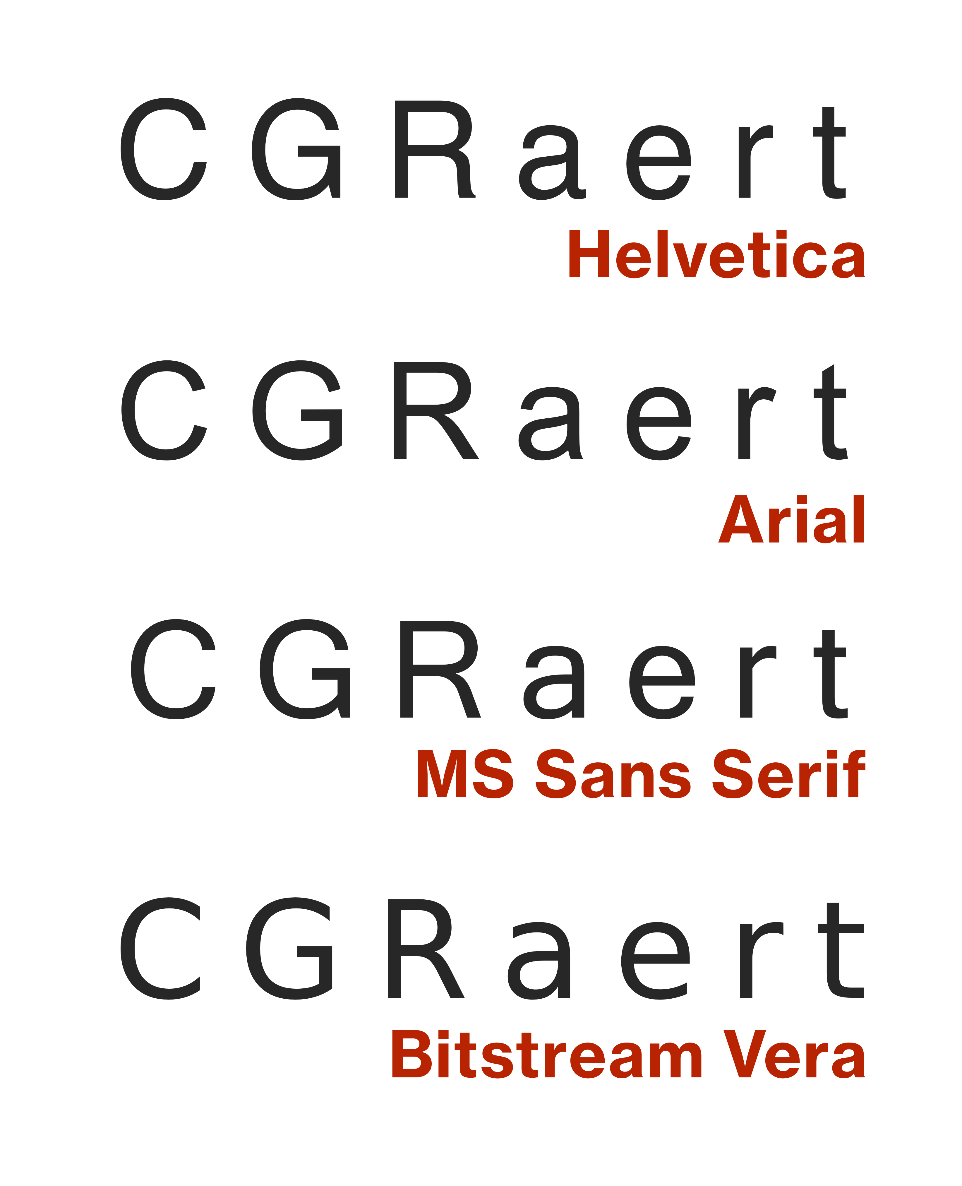 Comparison of Helvetica, Arial and Microsoft Sans Serif. Bitstream Vera, a humanist design not based on Helvetica, is shown for comparison.